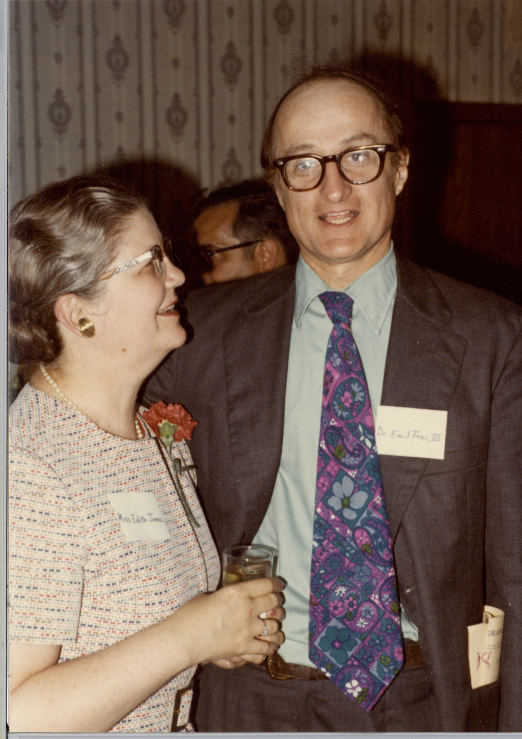 Emil Frei worked at the National Cancer Institute from 1955 to 1965. Frei was one of a handful of physicians who developed combination chemotherapy for cancer and produced the first cures of childhood leukemia. Shown here with Ms. Edna Jones at an event at the Clinical Center, National Institutes of Health.